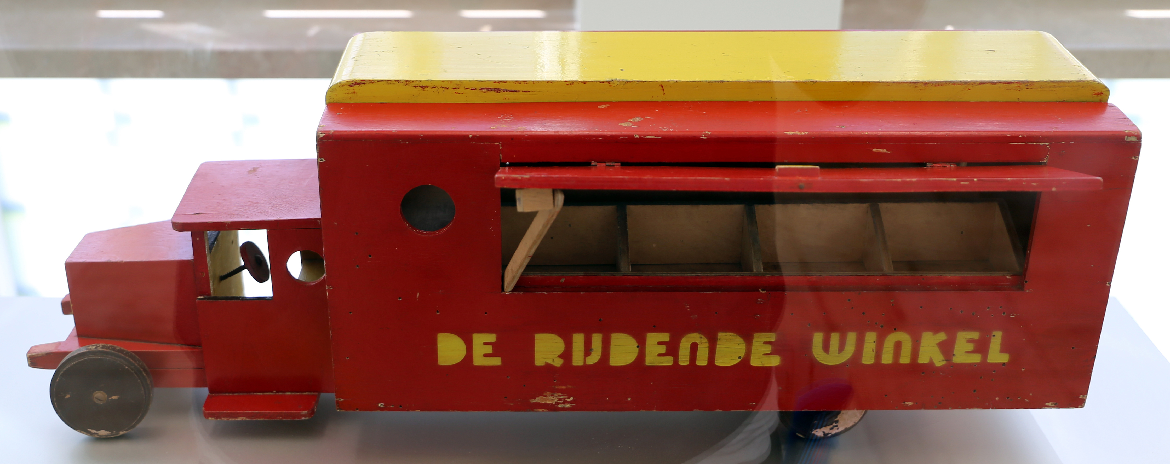 Applied art in the Museum Boijmans Van Beuningen